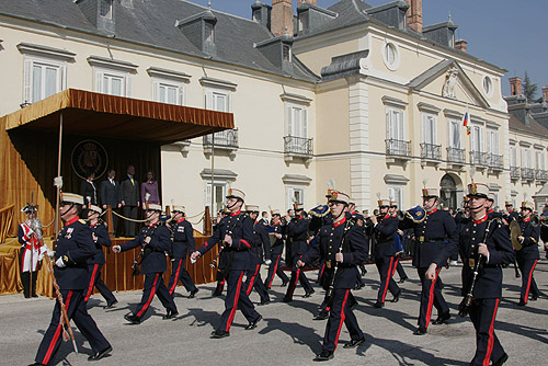 EL PARDO PALACE, MADRID. Royal Guard marches during an official welcome ceremony hosted by King of Spain Juan Carlos I and Queen Sofia for the Russian President and his spouse.